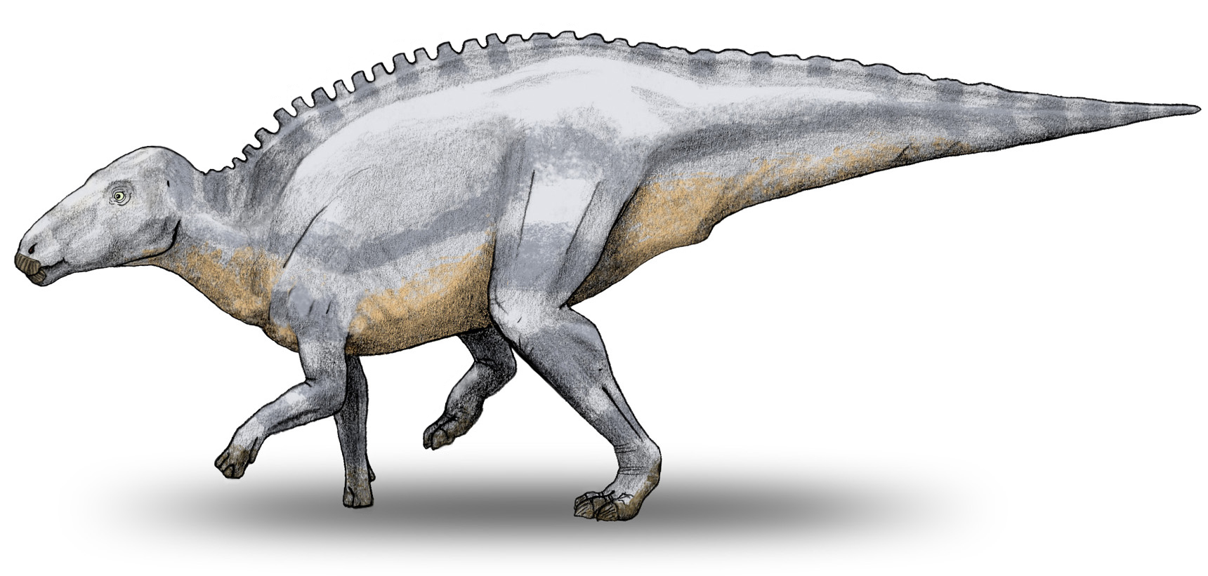 drawing by me user debivort may 07